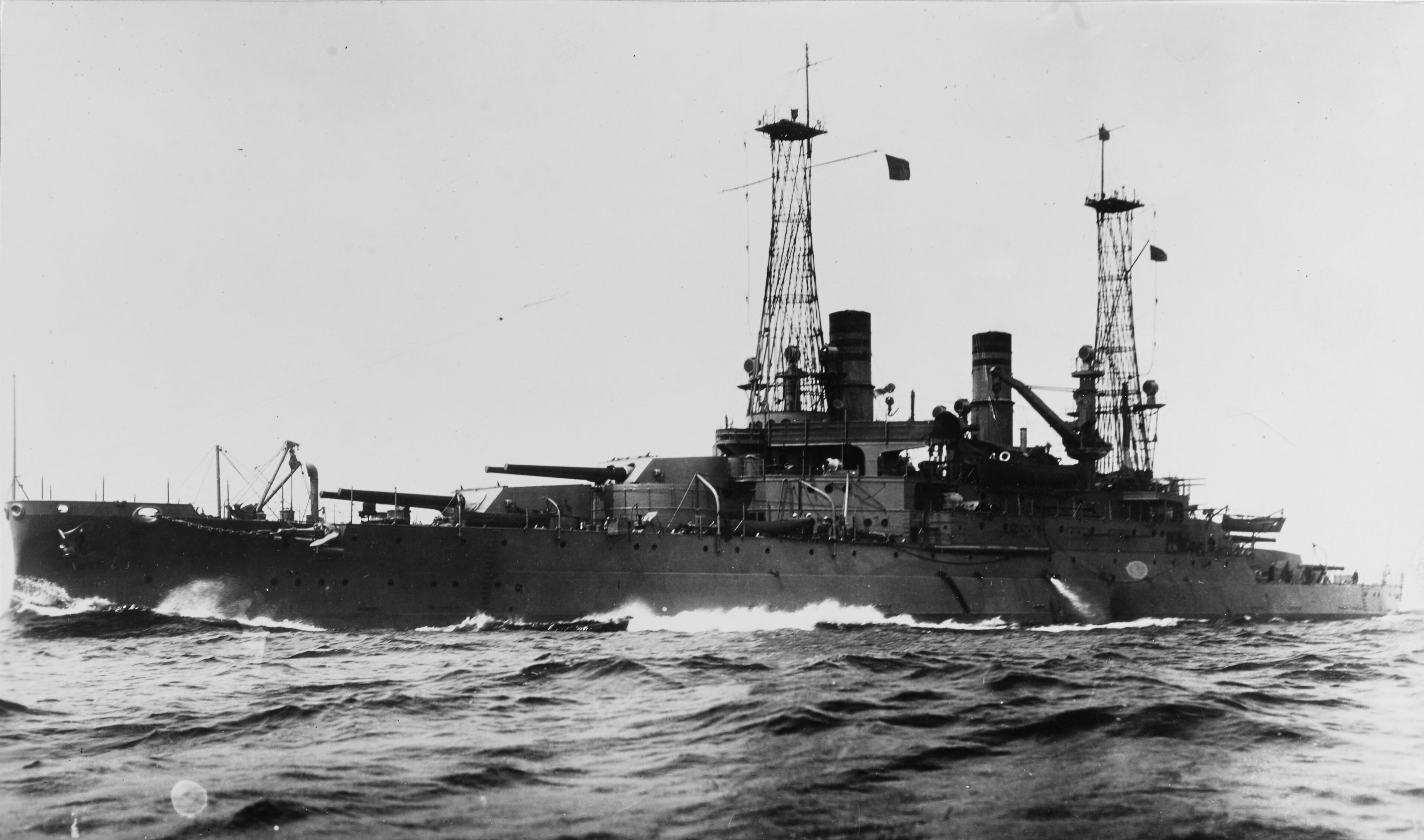 The USS Michigan Battleship, Public domain photo from history.navy.mil